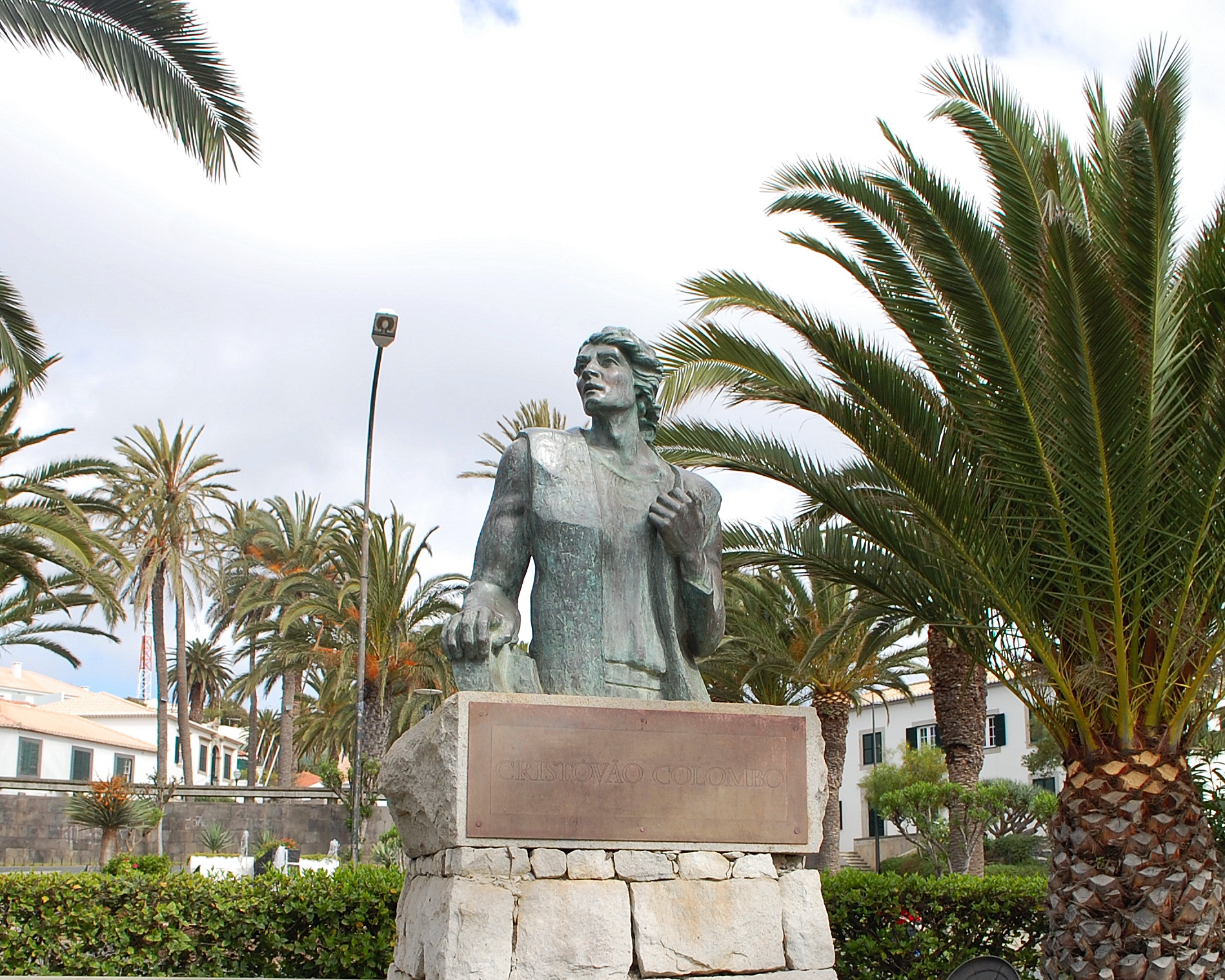 Statue of Columbus, who lived here for a time.